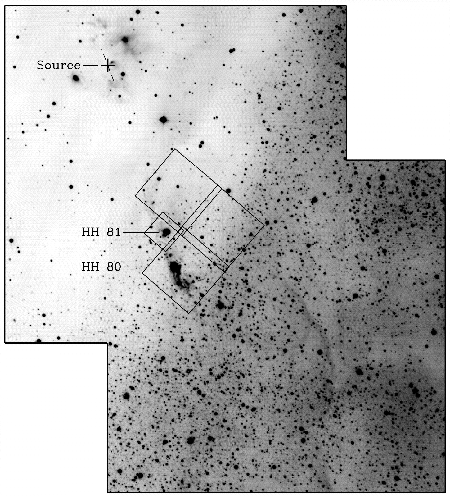 The entire HH 80/81 complex is shown in this mosaic of two H images obtained with the ESO 3.5 m New Technology Telescope. The field of view is approximately 97 × 106. In this and all subsequent images, north is up and east is to the left. The HH 80/81 complex appears superposed on the edge of the L291 cloud, traced by an abrupt discontinuity in both the number of background stars and in the intensity of diffuse emission, which runs diagonally across the frame from SE to NW. The position of the deeply embedded driving source is marked by the cross, while the dashed line indicates the orientation of the radio jet (Martí et al. 1993). The region around the source contains a number of optically visible reflection nebulae, but none of these are illuminated by the source itself. The rectangles show the placement of HH 80/81 within the WFPC2 field of view.